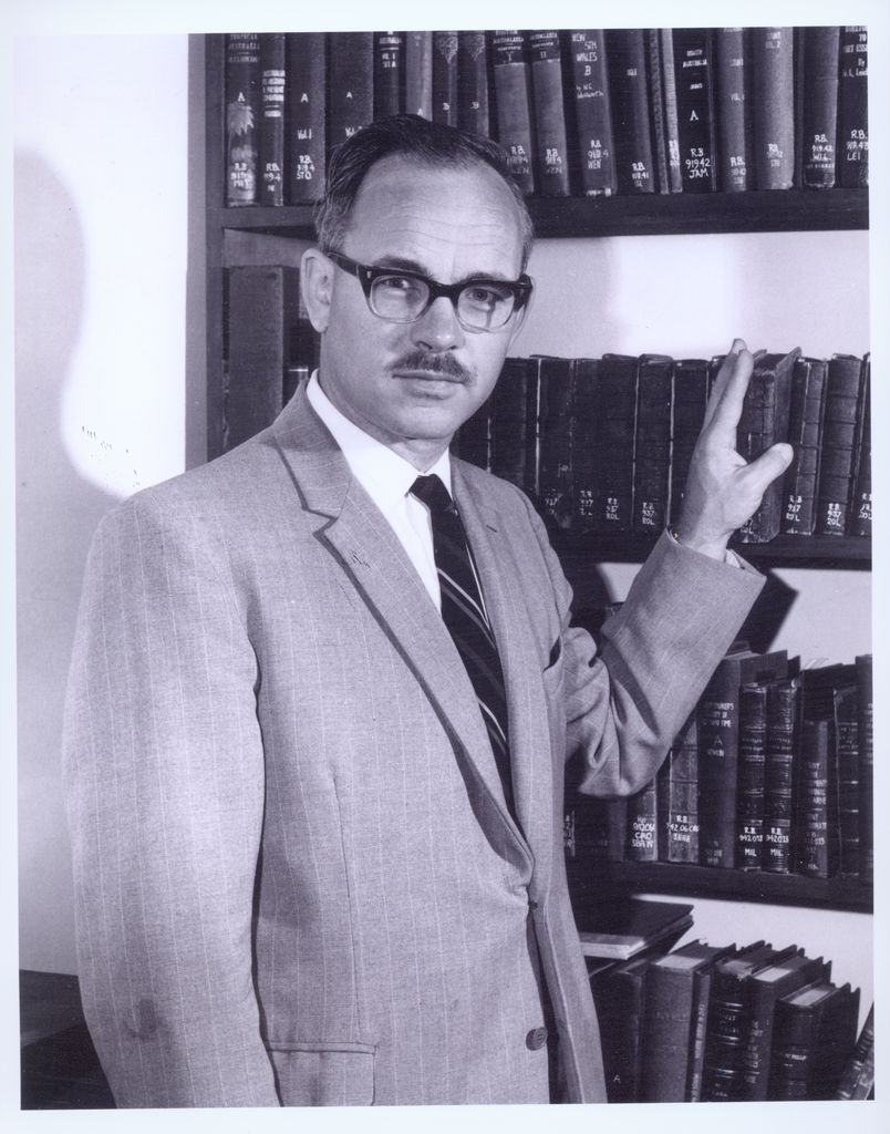 Derek Fielding, University Librarian, University of Queensland, Brisbane, 15 Nov 1965